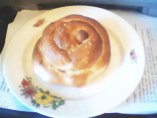 Round braided Cake-Bread.